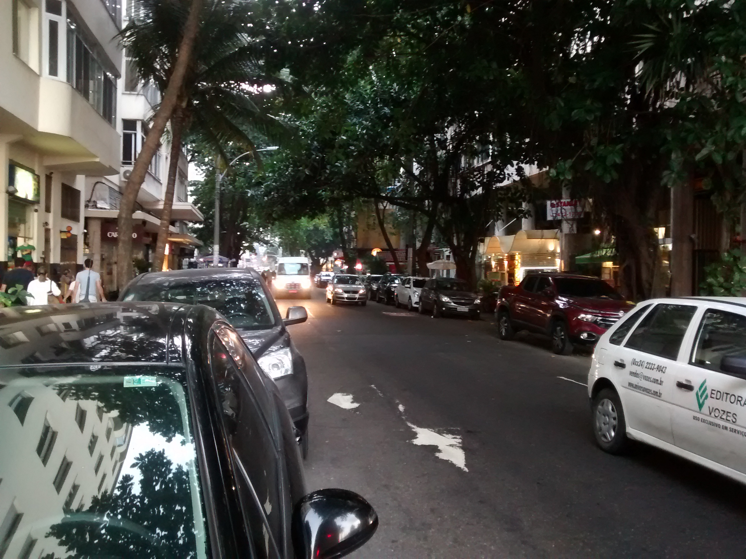 Rua Siqueira Campos, Rio de Janeiro.